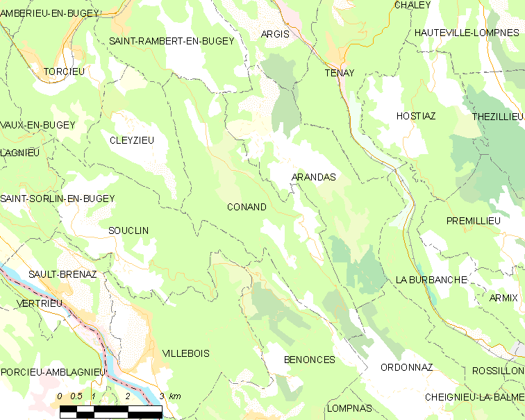 Map of French commune: Conand Map commune FR insee code 01111.png